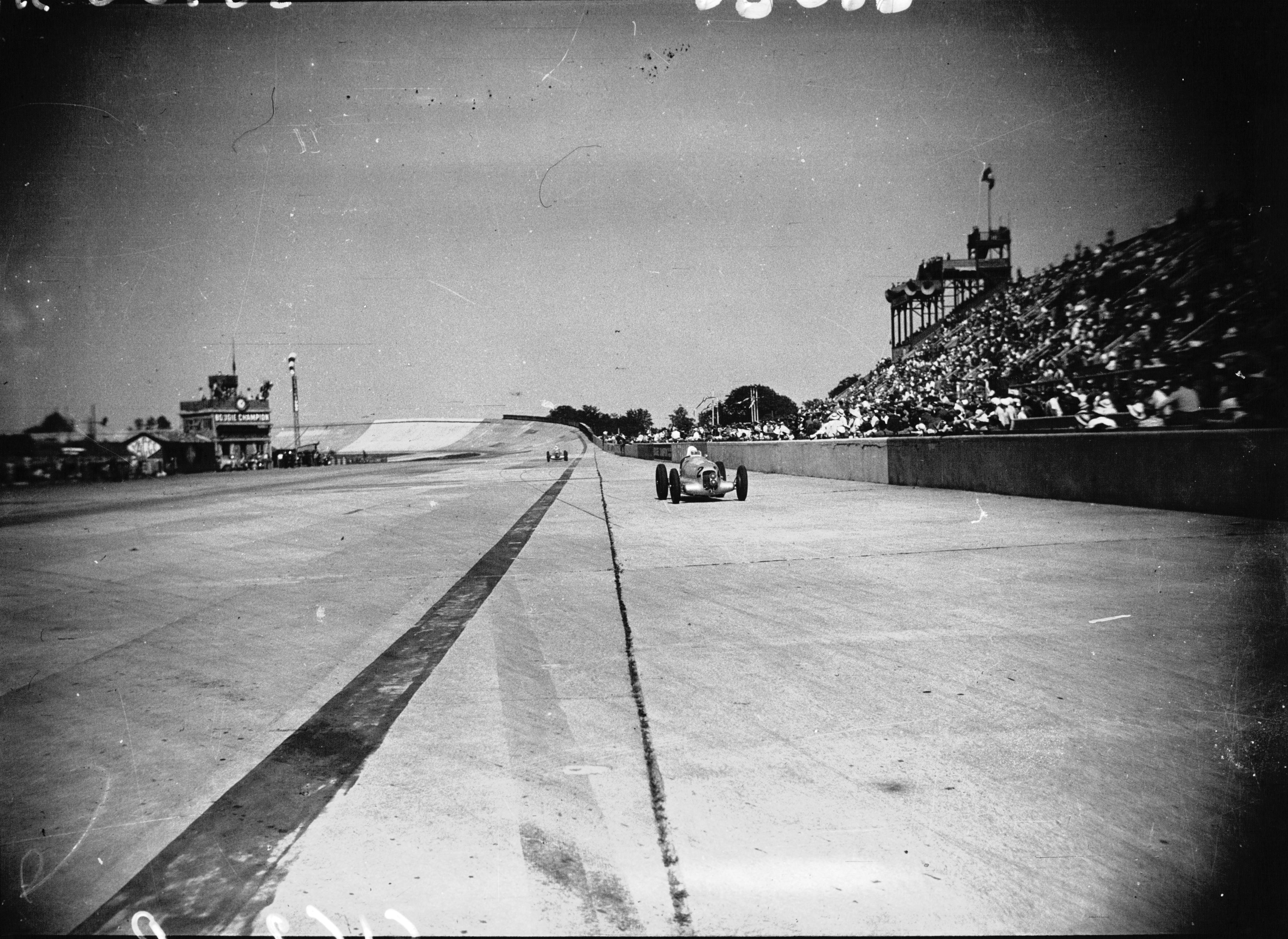 Rudolf Caracciola pitting at the 1935 French Grand Prix